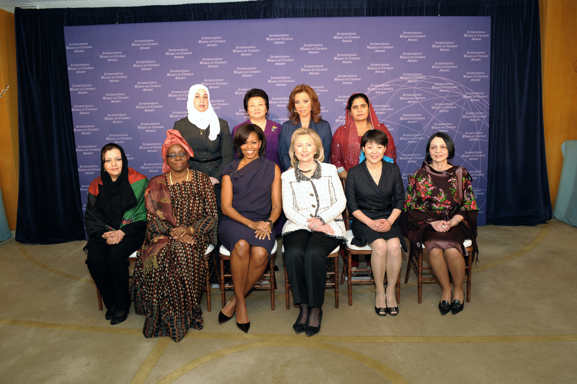 U.S. Secretary of State Hillary Clinton and First Lady Michelle Obama pose with the 2011 International Women of Courage Award recipients, March 8, 2011.Back row standing, left-to-right: Eva Abu Halaweh of Jordan, Roza Otunbayeva of Kyrgyzstan, Marisela Morales Ibañez of Mexico, Ghulam Sughra of Pakistan.Front row seated, left-to-right: Maria Bashir of Afghanistan, Henriette Ekwe Ebongo of Cameroon, Michelle Obama, Hillary Clinton, Jianmei Guo of China, Agnes Osztolykan of Hungary.